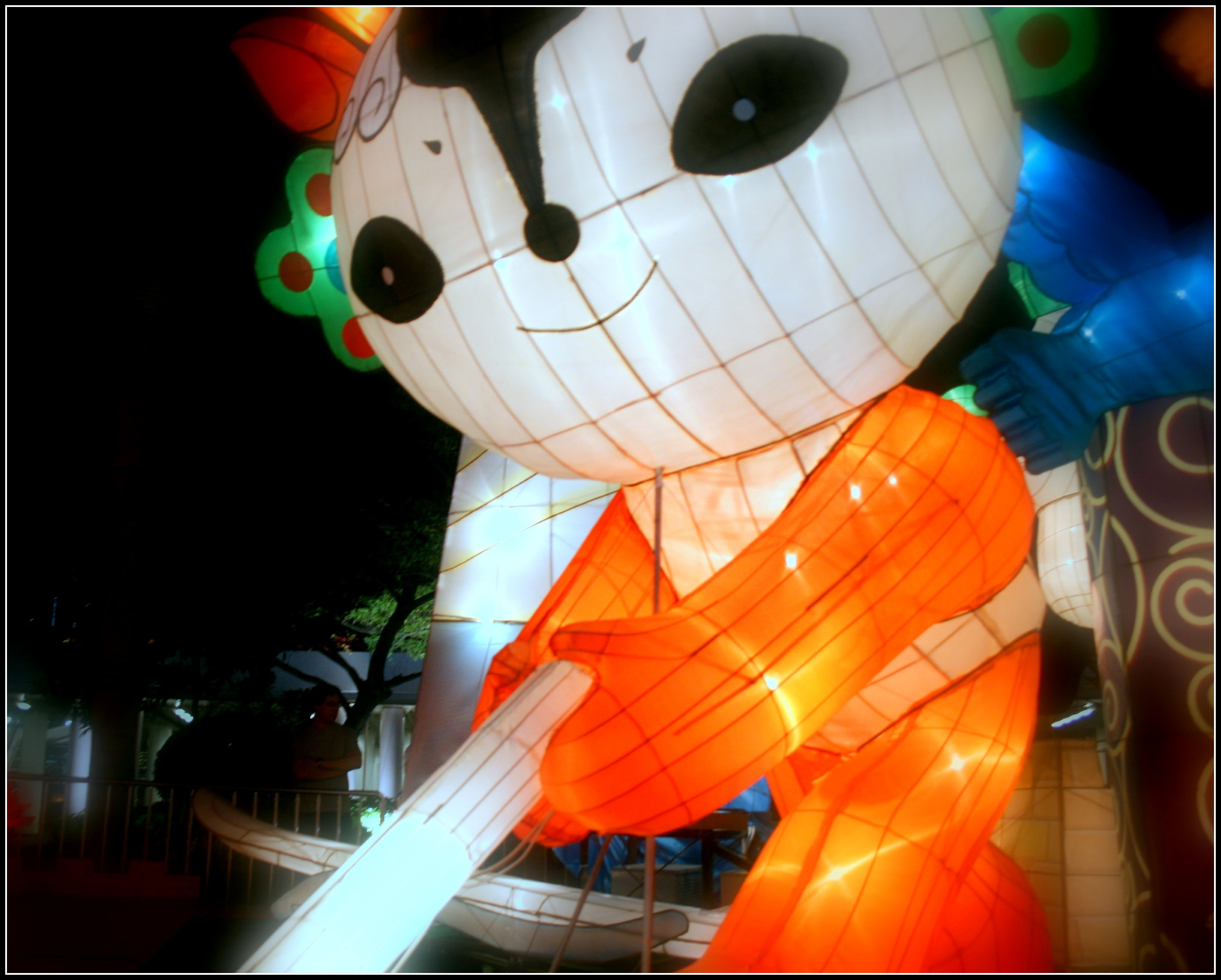 Playing hockey, I think. Apparently this is the Olympic Flame personified! (One of the mascots for the 2008 Olympic Games in Beijing.)